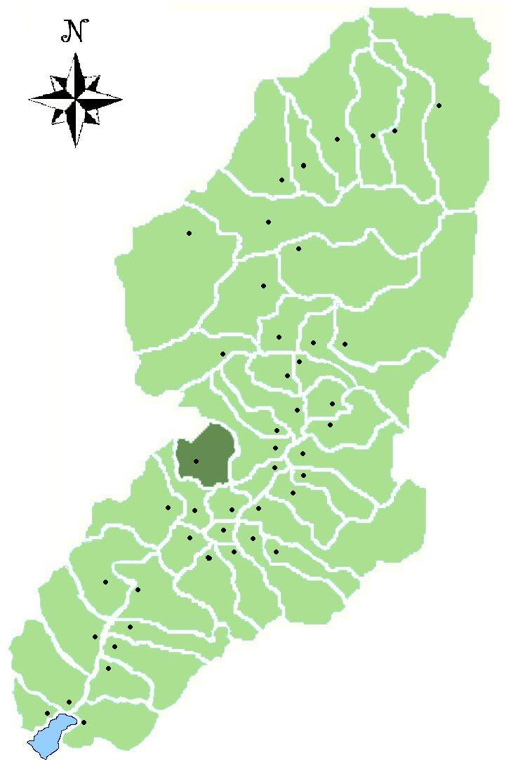 Map of the Comune di Lozio, Valle Camonica